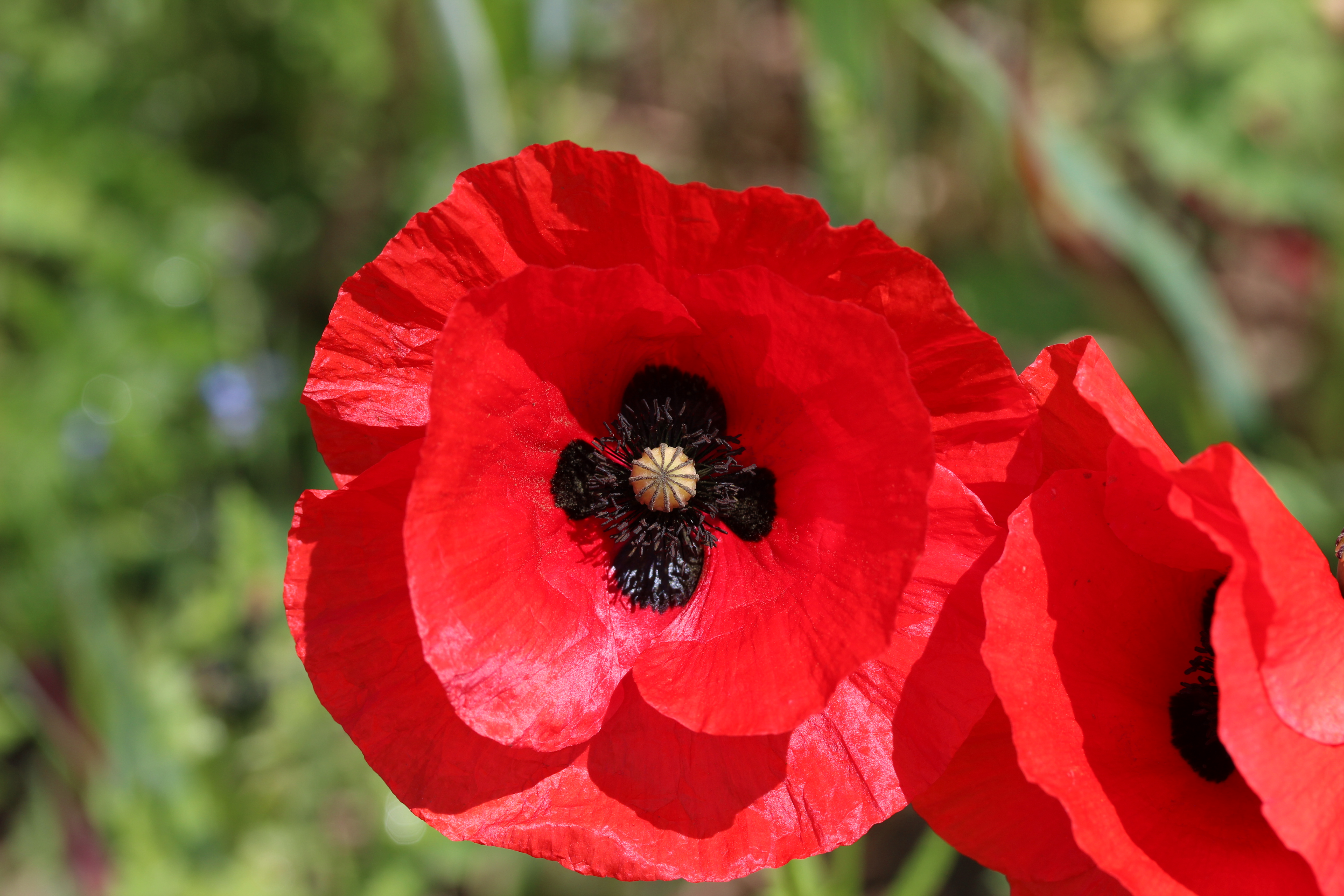 Field poppy - Papaver rhoeas